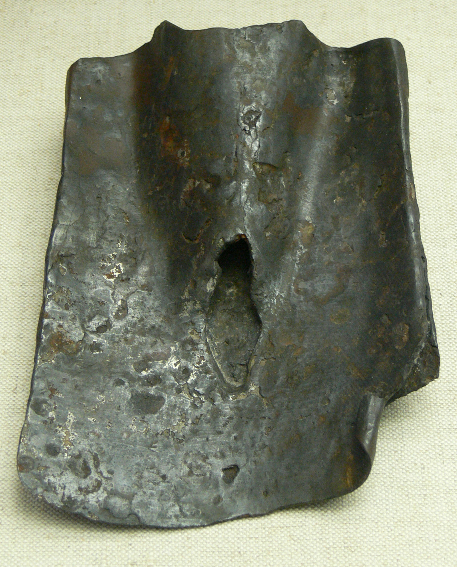 Roman museum Kastell Boiotro ( Passau ). Ancient Roman, possibly military engineering, spade ( 3rd century AD ).